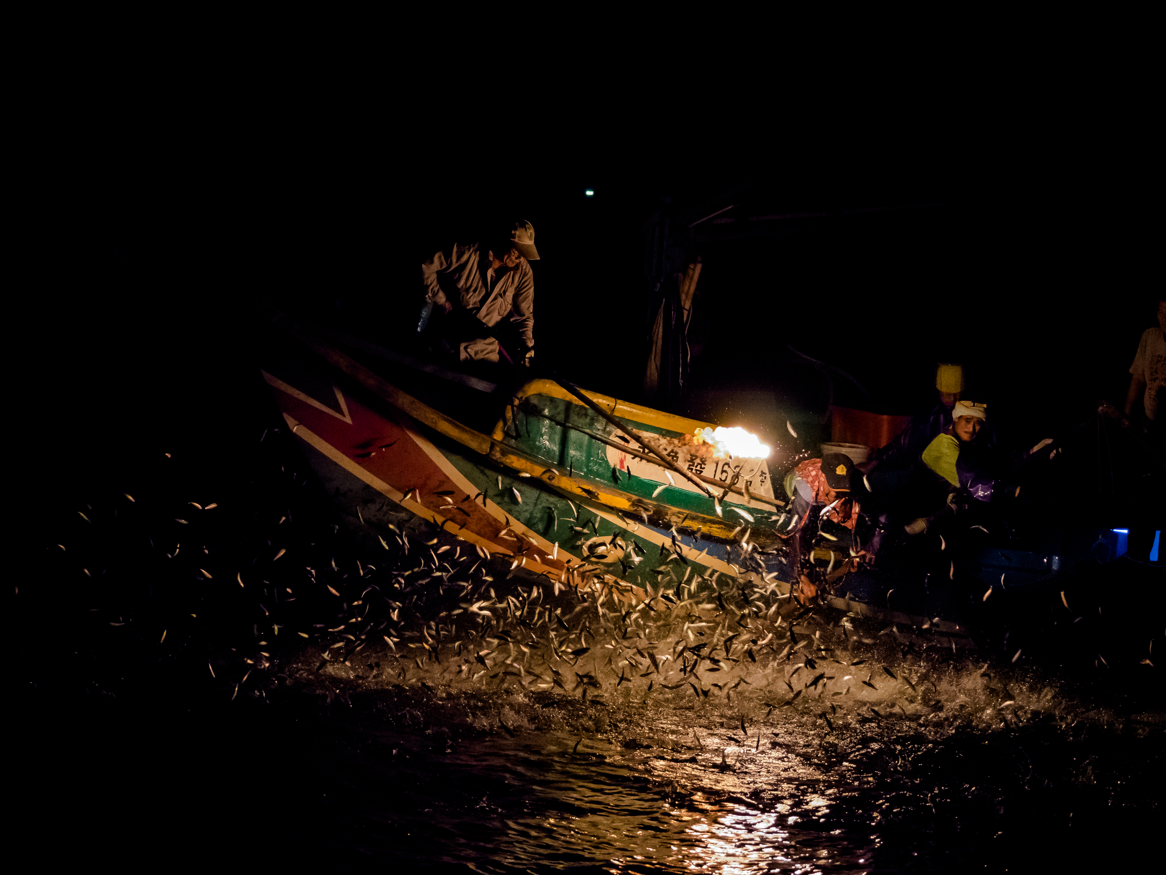 Sulfuric fire fishing(Jinshan,Taiwan)